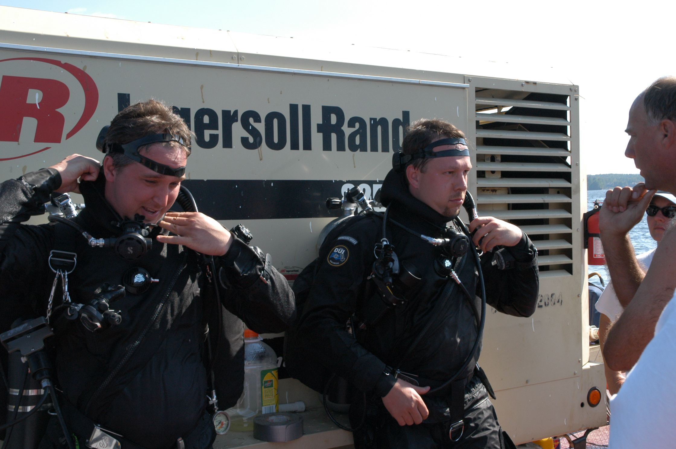 Brian Armstrong (diver) and Gene Hobbs debrief after dive on B-25 recovery project in 2005